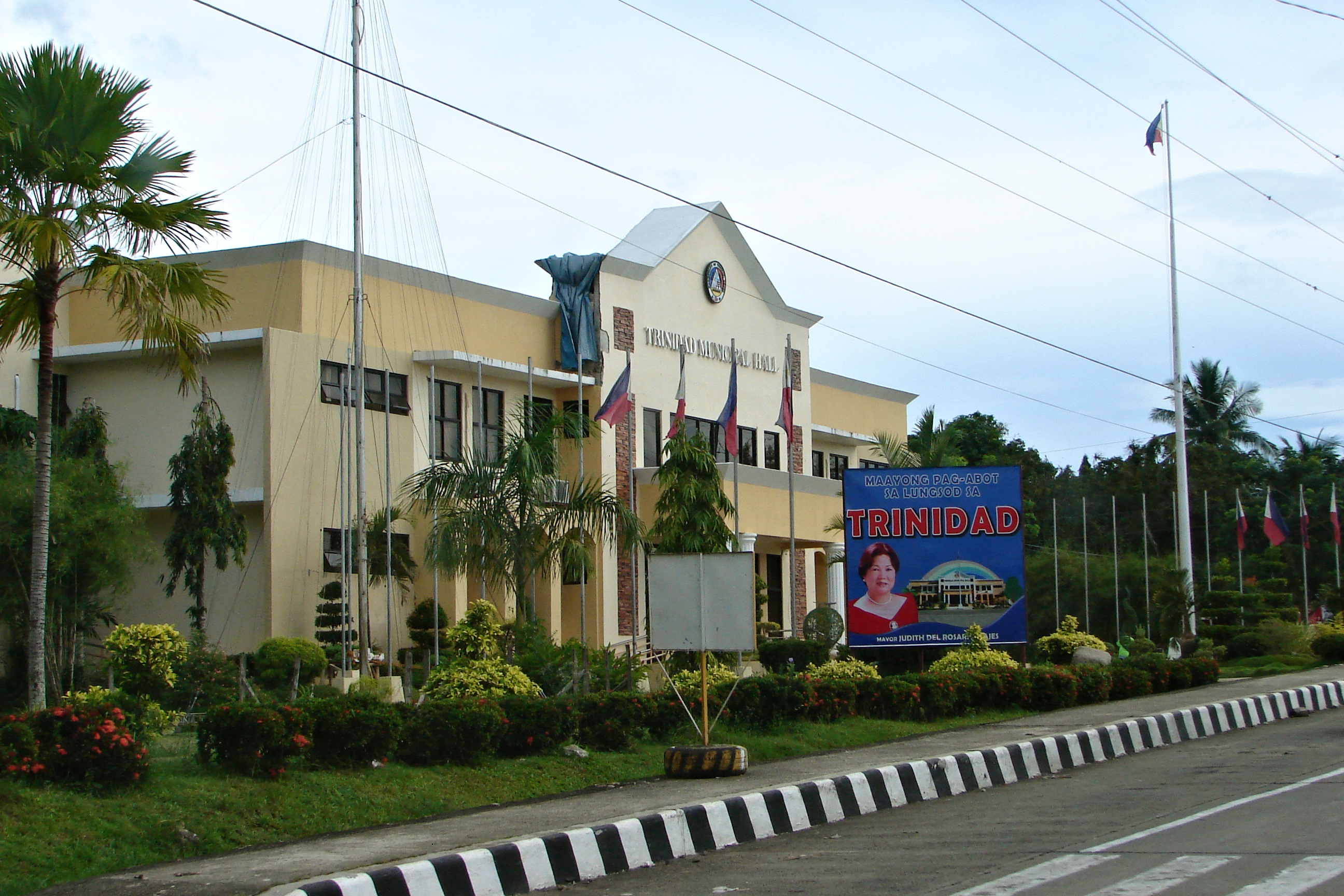 Town hall of Trinidad, Bohol, Philippines